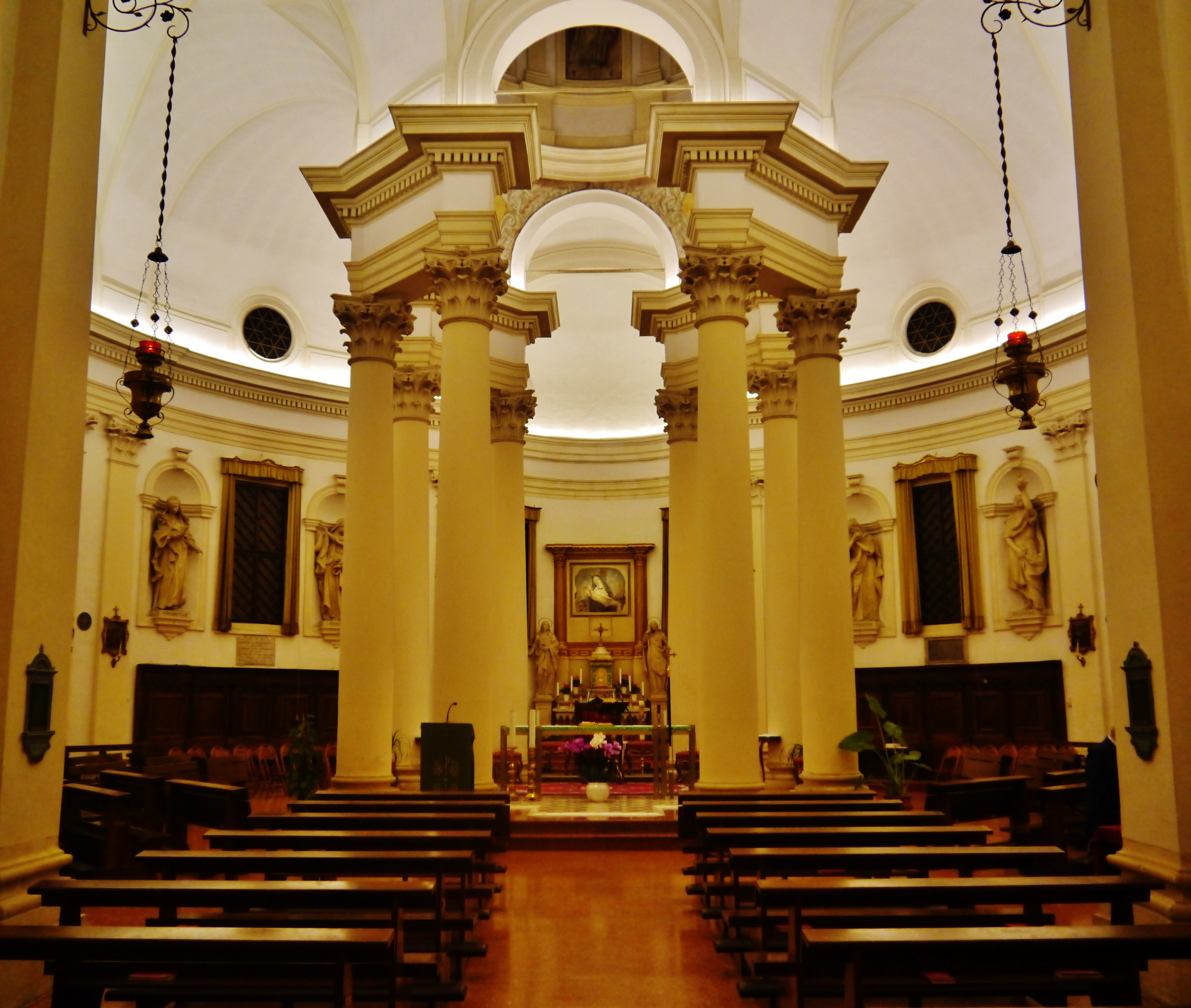 Interior of the Church of Madonna Addolorata al Torresino at Night, Padua, Province of Padua, Region of Veneto, Italy